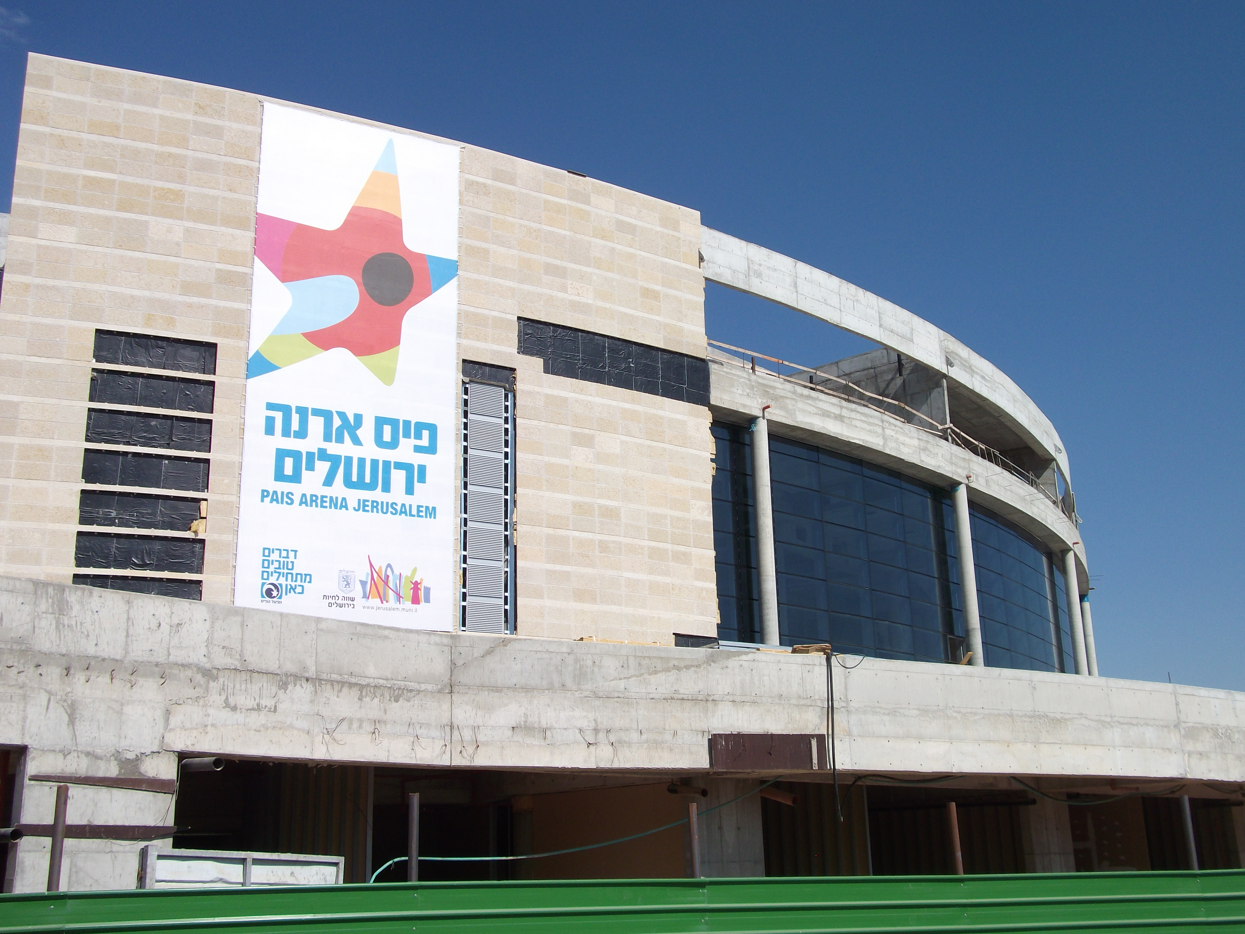 Jerusalem Arena